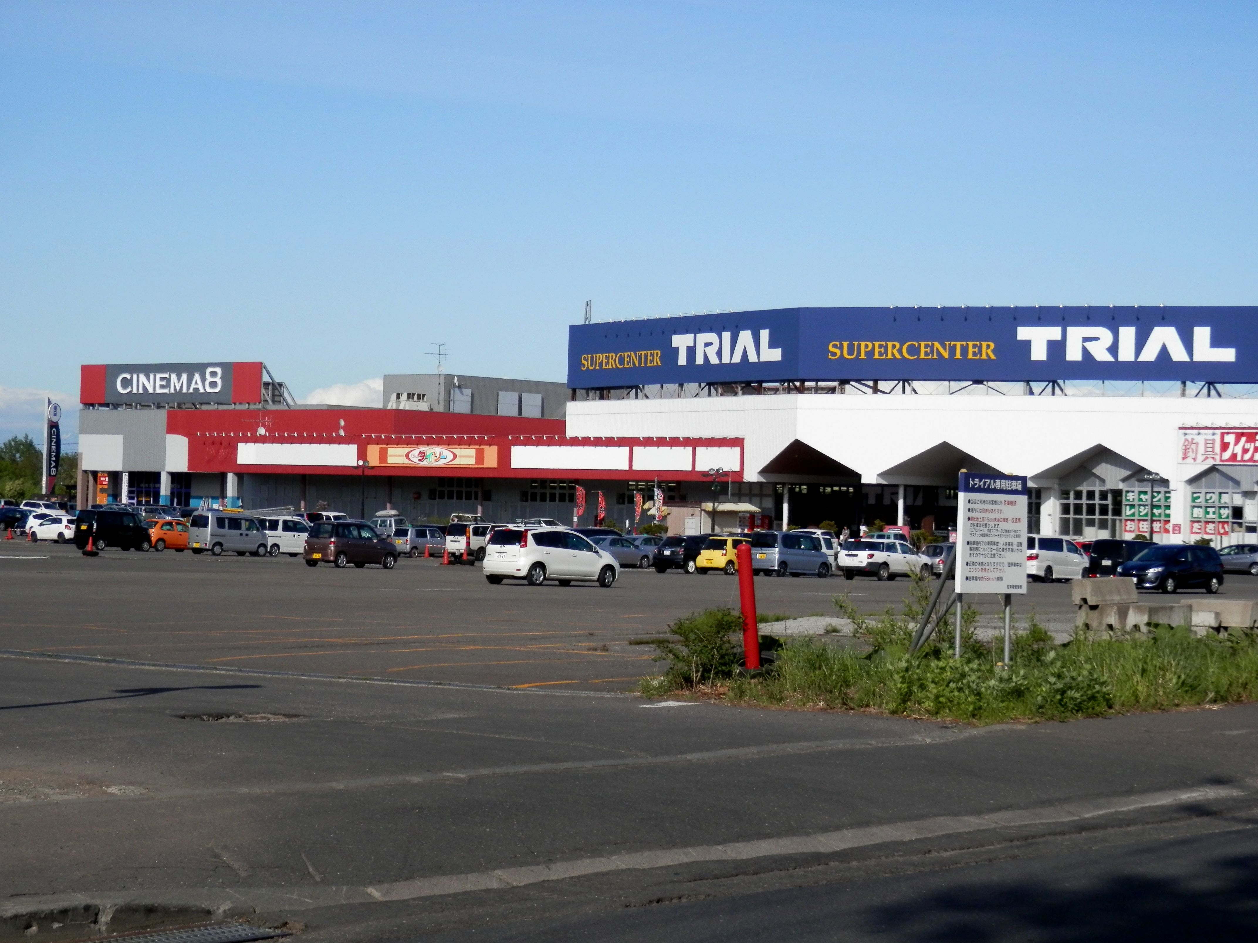 Eniwa Toho Cinema 8, Trial Supermarket and Daiso 100 yen shop complex in Eniwa, Hokkaido